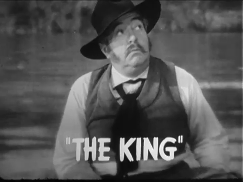 Walter Connolly in The Adventures of Huckleberry Finn, by Richard Thorpe (1939)